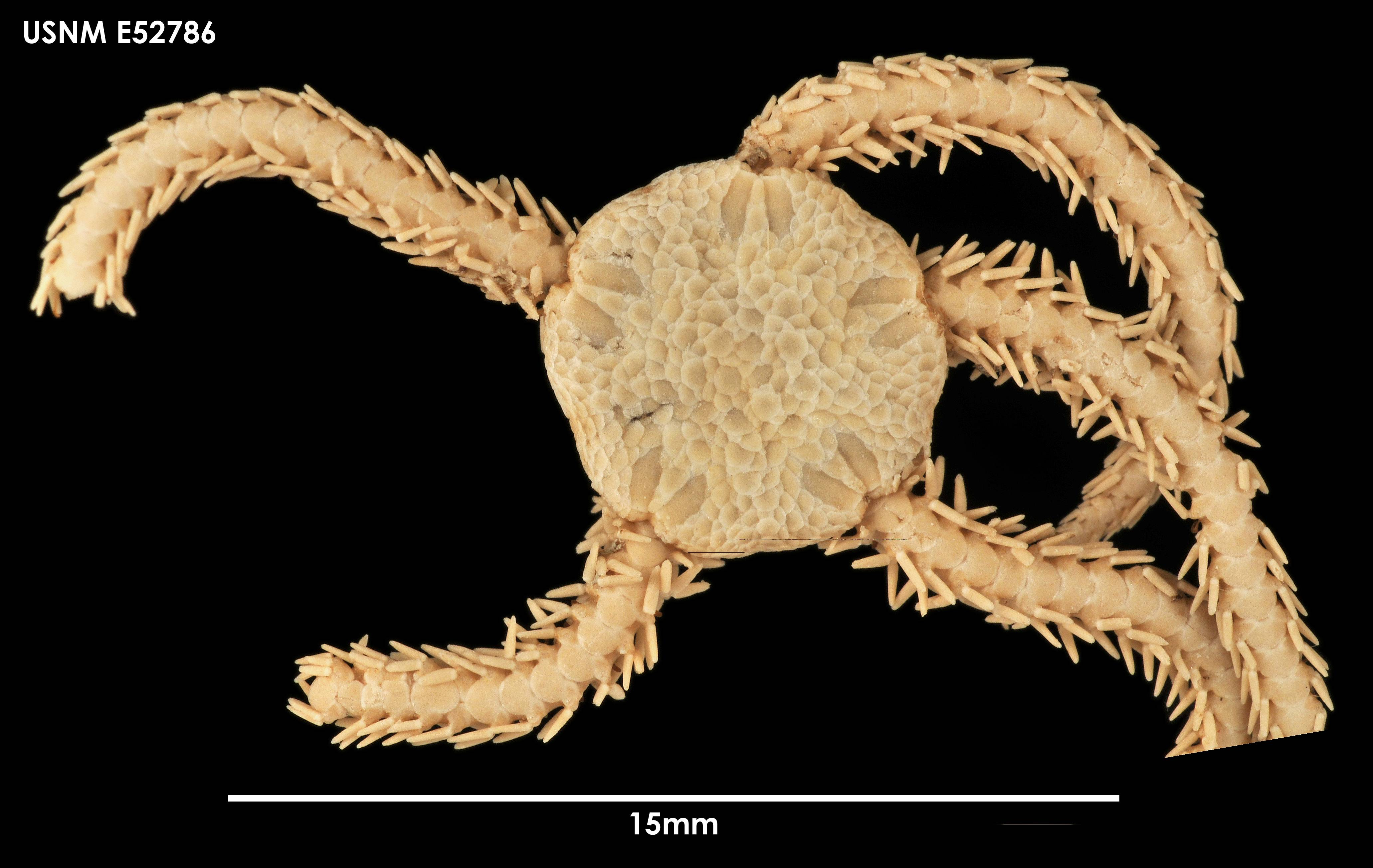 PRESERVED_SPECIMEN; Preparations: Dry; Amphiura alternans Koehler, 1923; Individual count: 13; Type status: (no data); Identified by: Smirnov, Igor S.; Event date: 19750514T00:00:00Z; Additional description: Dorsal view, dry specimen